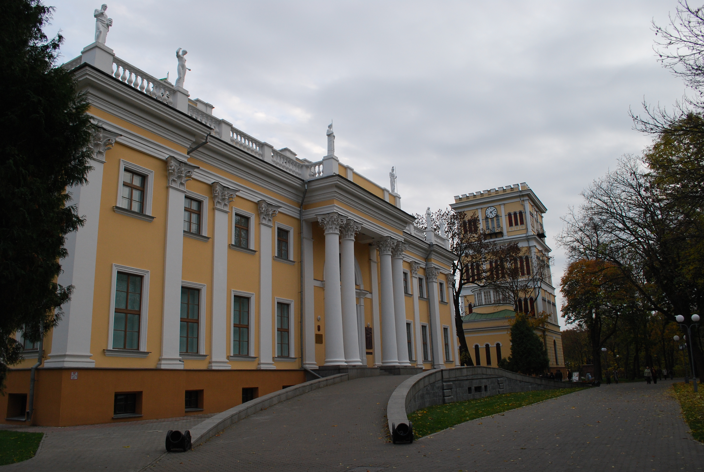 Palace in Homiel, Belarus